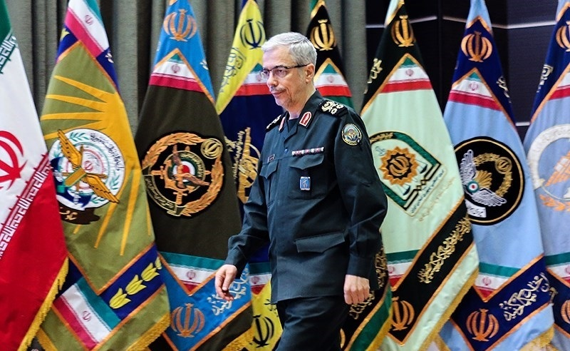 Mohammad Bagheri at Shahid Satari University